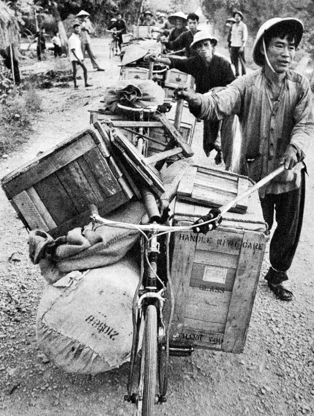 Bicycle - one of the most popular source of transportation along the Ho Chi Minh trial. Captured N-V photo.